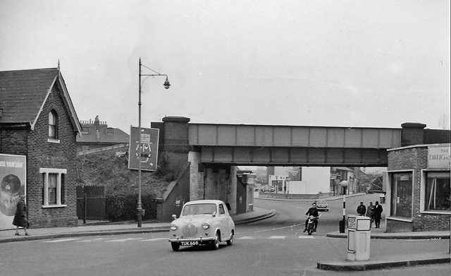 Site of Brockley Lane Station at Brockley Cross. View southward; Nunhead (right) - Lewisham (left) Loop line (since 7-7-29). Brockley Lane station was on the Nunhead - Greenwich Park branch of the South Eastern & Chatham line and was closed to passengers with the branch service on 1-1-17, but the Goods station (slightly to the west) remained until 4-5-70. The Nunhead - Lewisham section of the line was renovated in 1929, to provide a route, principally for freight traffic for Hither Green from Blackfriars Bridge, which by-passed London Bridge. The photograph is at the junction of Geoffrey Road and Brockley Road.